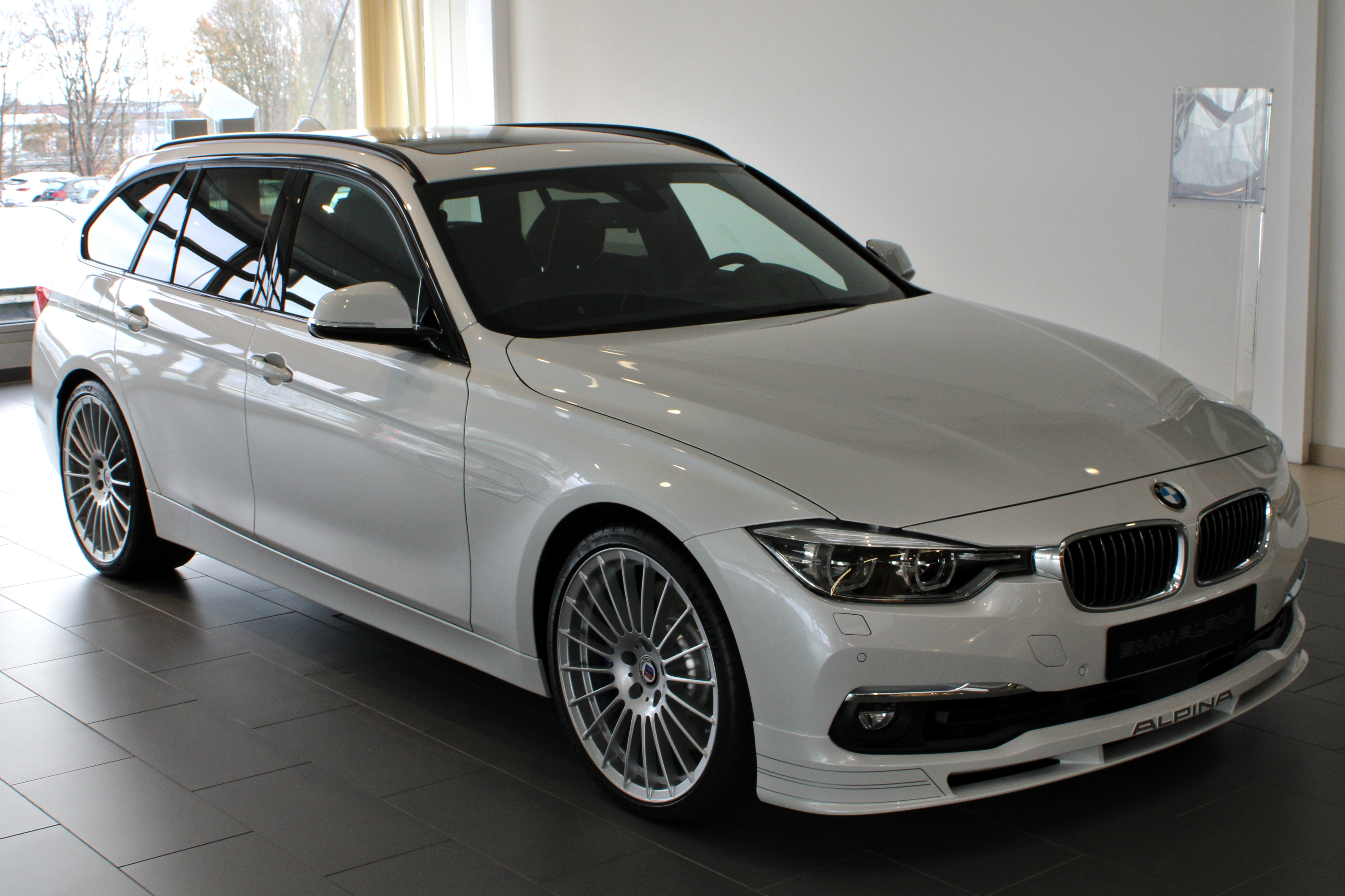 Alpina D3 (F31) in Stuttgart-Vaihingen